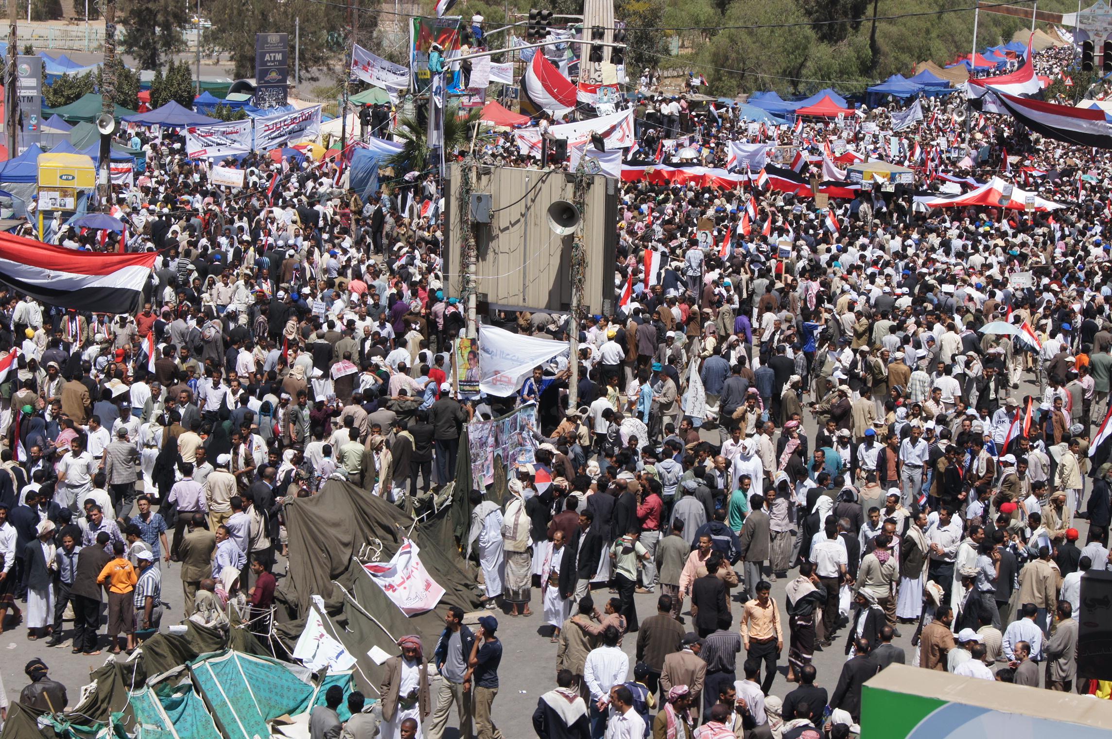 Tens of thousands of protesters marching to Sana'a University, joined for the first time by opposition parties, during the 2011–2012 Yemeni revolution.